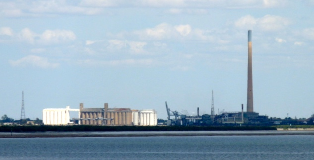 The smelter smoke stack and grain silos of Port Pirie, South Australia